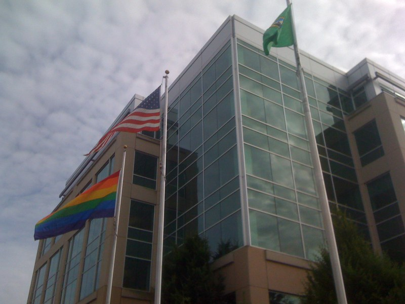 Photo taken of flags raised in front of the Microsoft Sammamish Campus in Issaquah, Washington. The flag on the right is the flag of Washington State, the one in the center is the American Flag, and most notably the one on the left is the flag of Microsoft's own GLEAM.